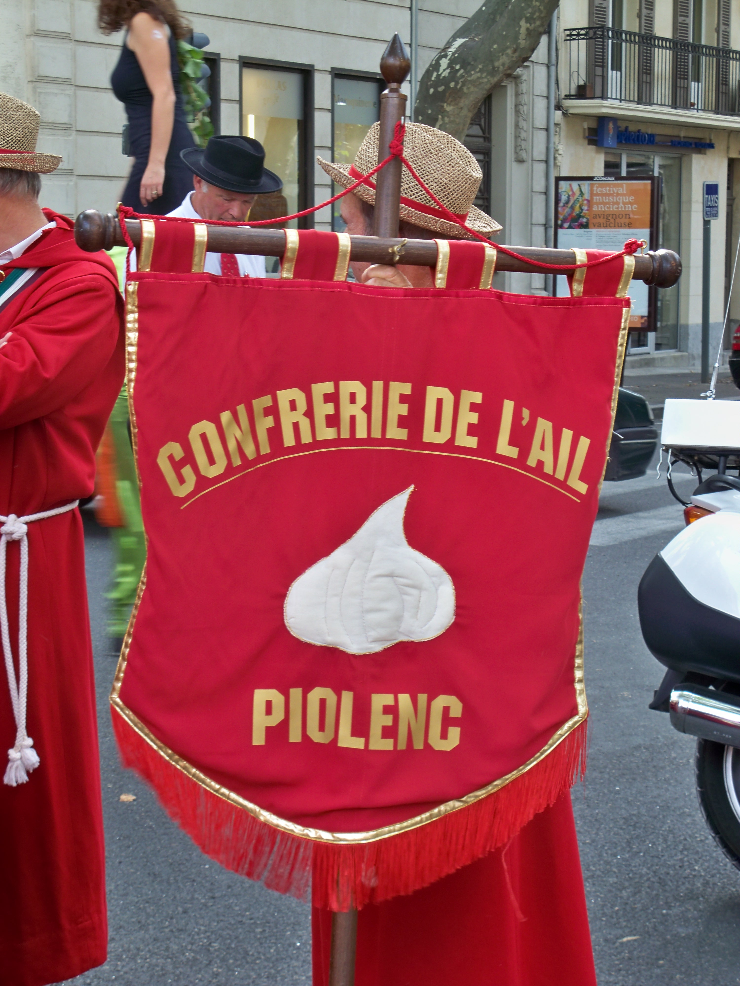 Banner of the brotherhood of garlic of Piolenc (Vaucluse, France)